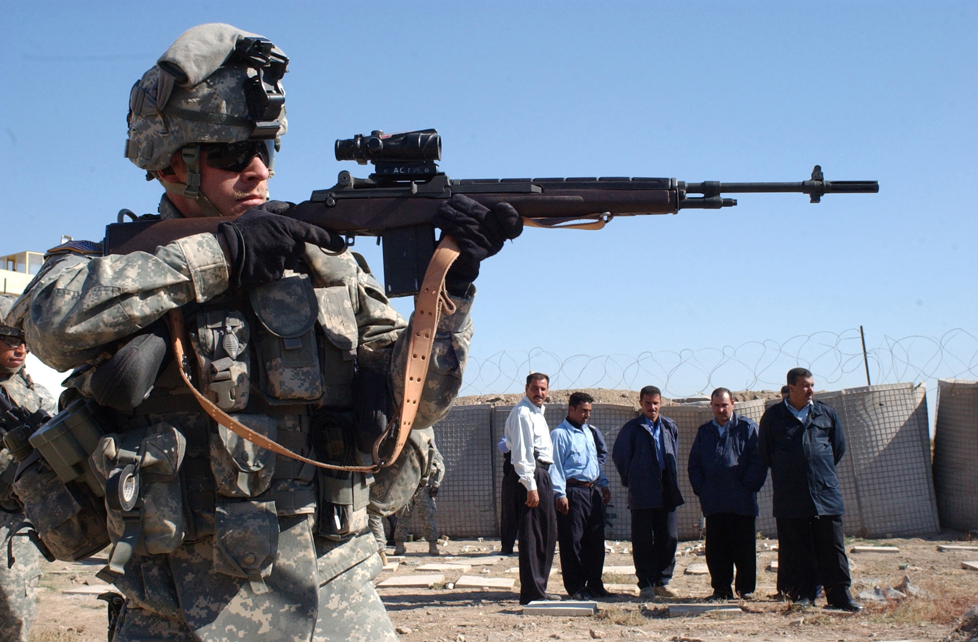 U.S. Army Sgt. 1st Class Richard Wiley demonstrates shooting an M-14 rifle to Iraqi Highway Patrol (IHP) police officers during close-quarters marksmanship training Nov. 17, 2006, at the Al Samud IHP Station in Iraq. Wiley is a platoon sergeant with Alpha Company, 3rd Battalion, 509th Infantry Regiment, Fort Richardson, Alaska.